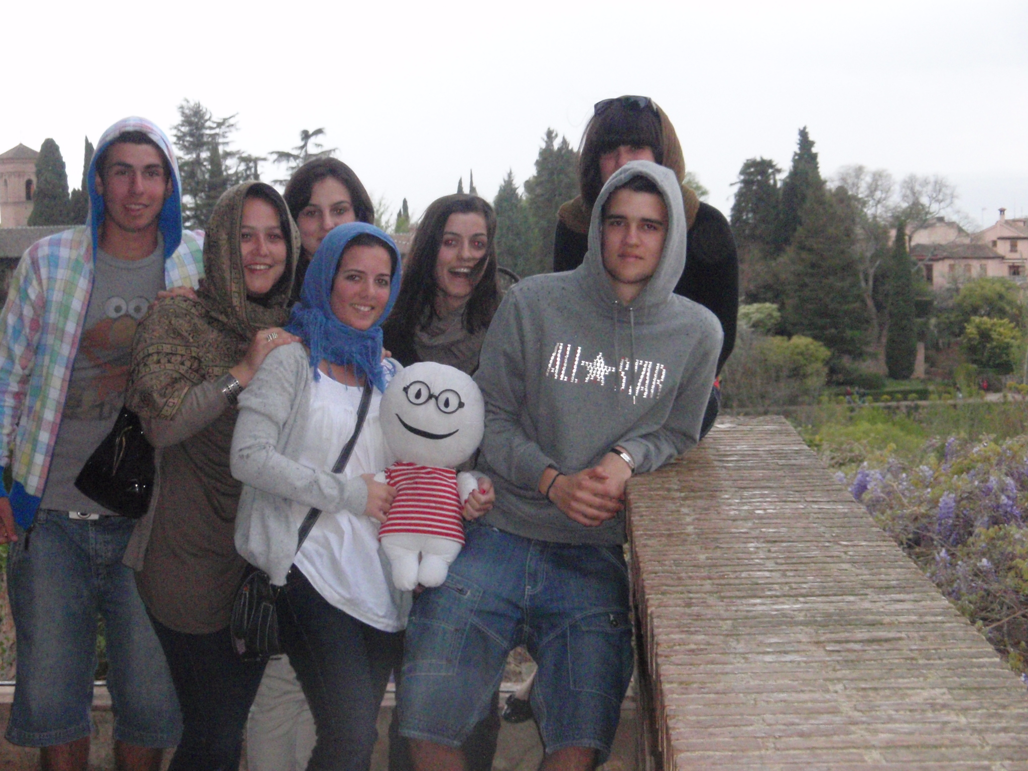 Stabri the traveller doll in Granada